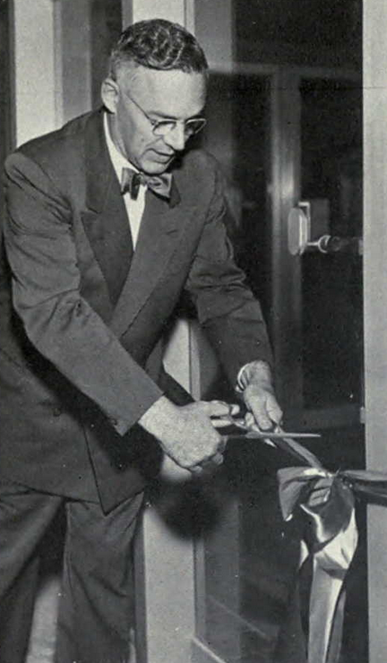 Richard G. Folsom during a visit to Hill Auditorium at the University of Michigan